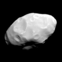 The Cassini spacecraft captured this close view of Saturn's moon Pandora during the spacecraft's flyby on June 3, 2010. Pandora is 81 kilometers (50 miles) across, and orbits beyond Saturn's thin F ring, which is shepherded by Pandora and Prometheus. See Pandora's Color Close-up for an earlier, closer view of Pandora. This view looks toward the Saturn-facing side Pandora. North on Pandora is up and rotated 20 degrees to the left. The image was taken in visible light with the Cassini spacecraft narrow-angle camera. The view was obtained at a distance of approximately 101,000 kilometers (63,000 miles) from Pandora and at a sun-Pandora-spacecraft, or phase, angle of 28 degrees. Image scale is 603 meters (1,980 feet) per pixel. The Cassini-Huygens mission is a cooperative project of NASA, the European Space Agency and the Italian Space Agency. The Jet Propulsion Laboratory, a division of the California Institute of Technology in Pasadena, manages the mission for NASA's Science Mission Directorate, Washington, D.C. The Cassini orbiter and its two onboard cameras were designed, developed and assembled at JPL. The imaging operations center is based at the Space Science Institute in Boulder, Colo.